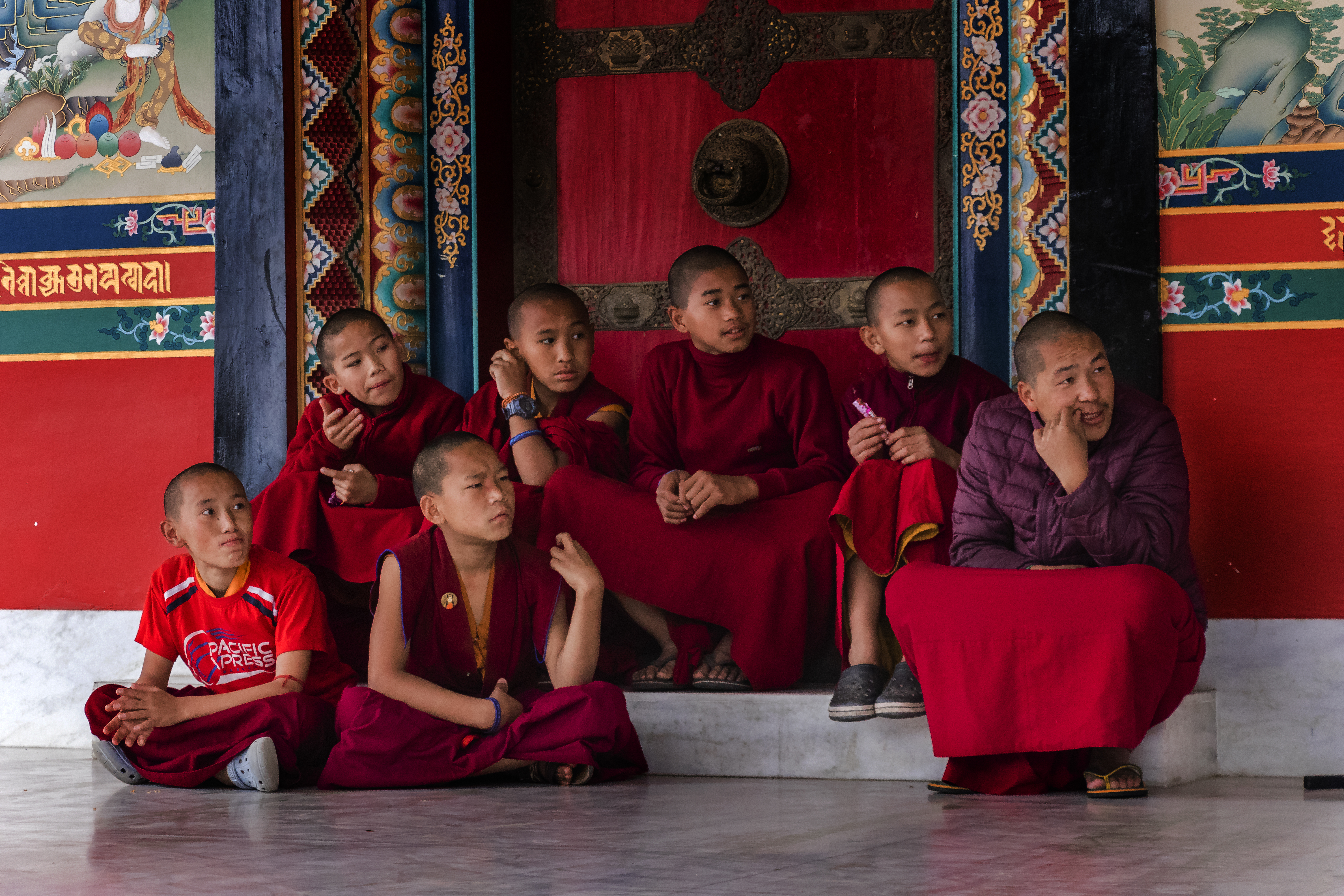 Buddhist monks (Bhikkhu)